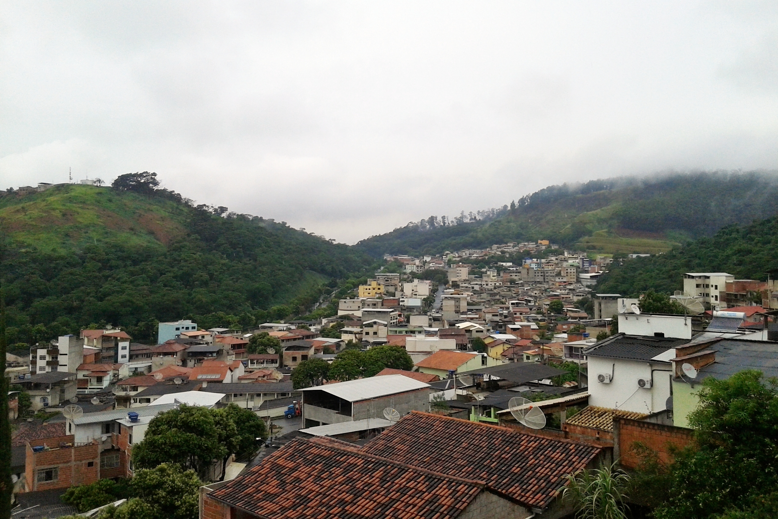 Partial view of the Ideal neighborhood seen from of the Saint Luke church, in Ipatinga, Minas Gerais, Brazil.